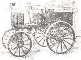 La Cuadra electric car (circa 1899)